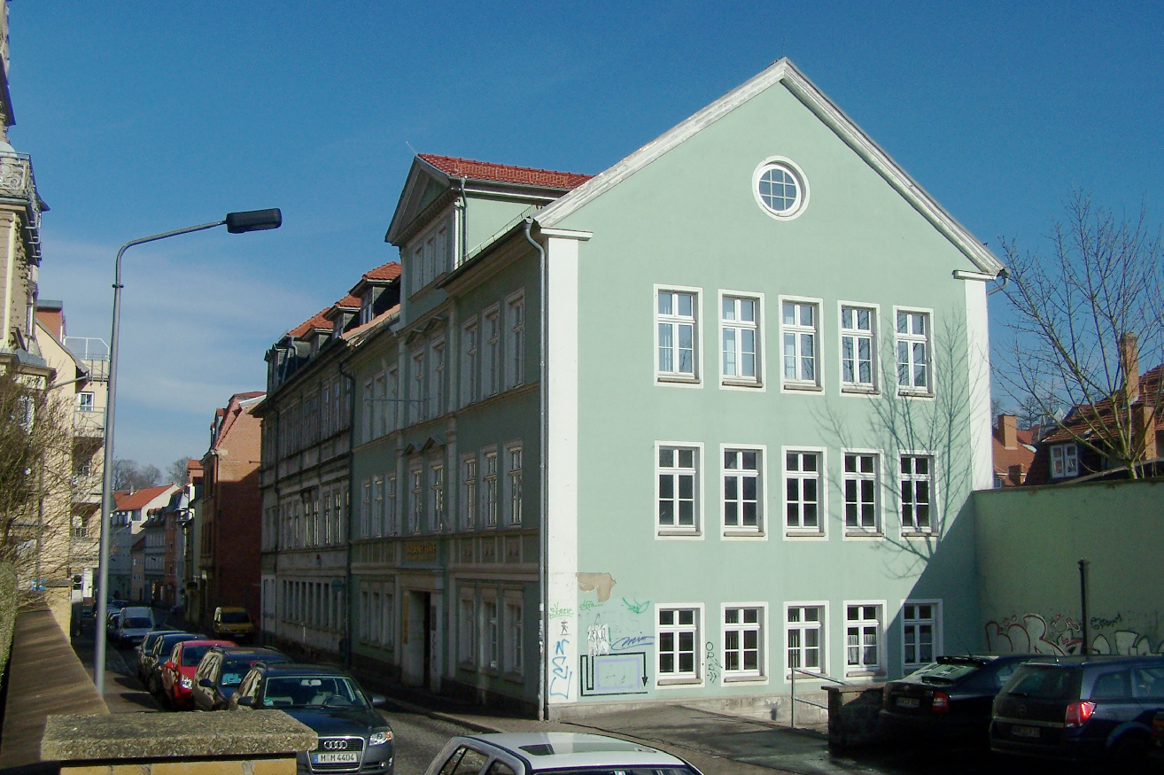 The museum Goldener Löwe in Eisenach, Marienstraße.